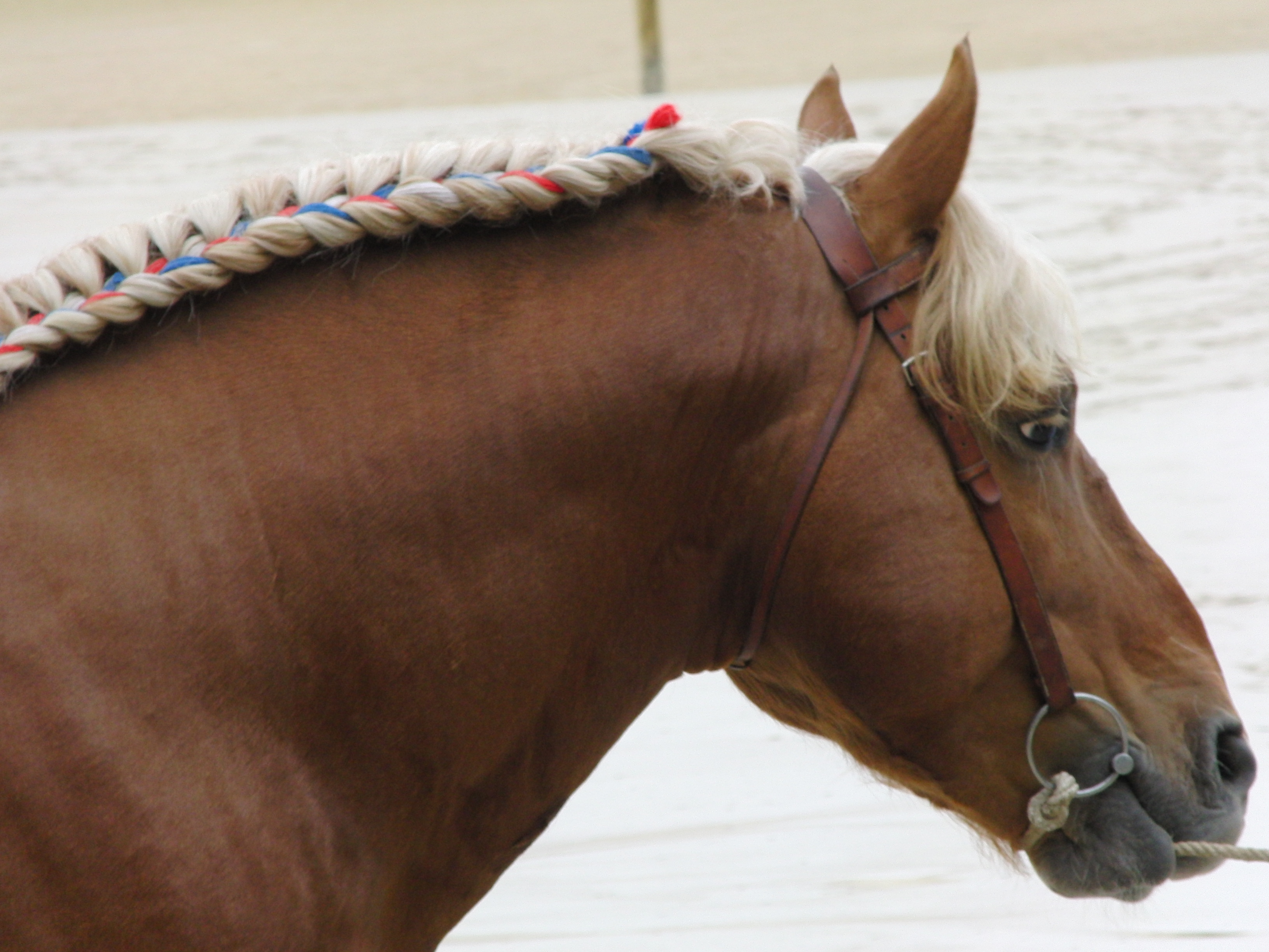 Head of a Comtois stallion, Haras de Cluny, Saône-et-Loire, France